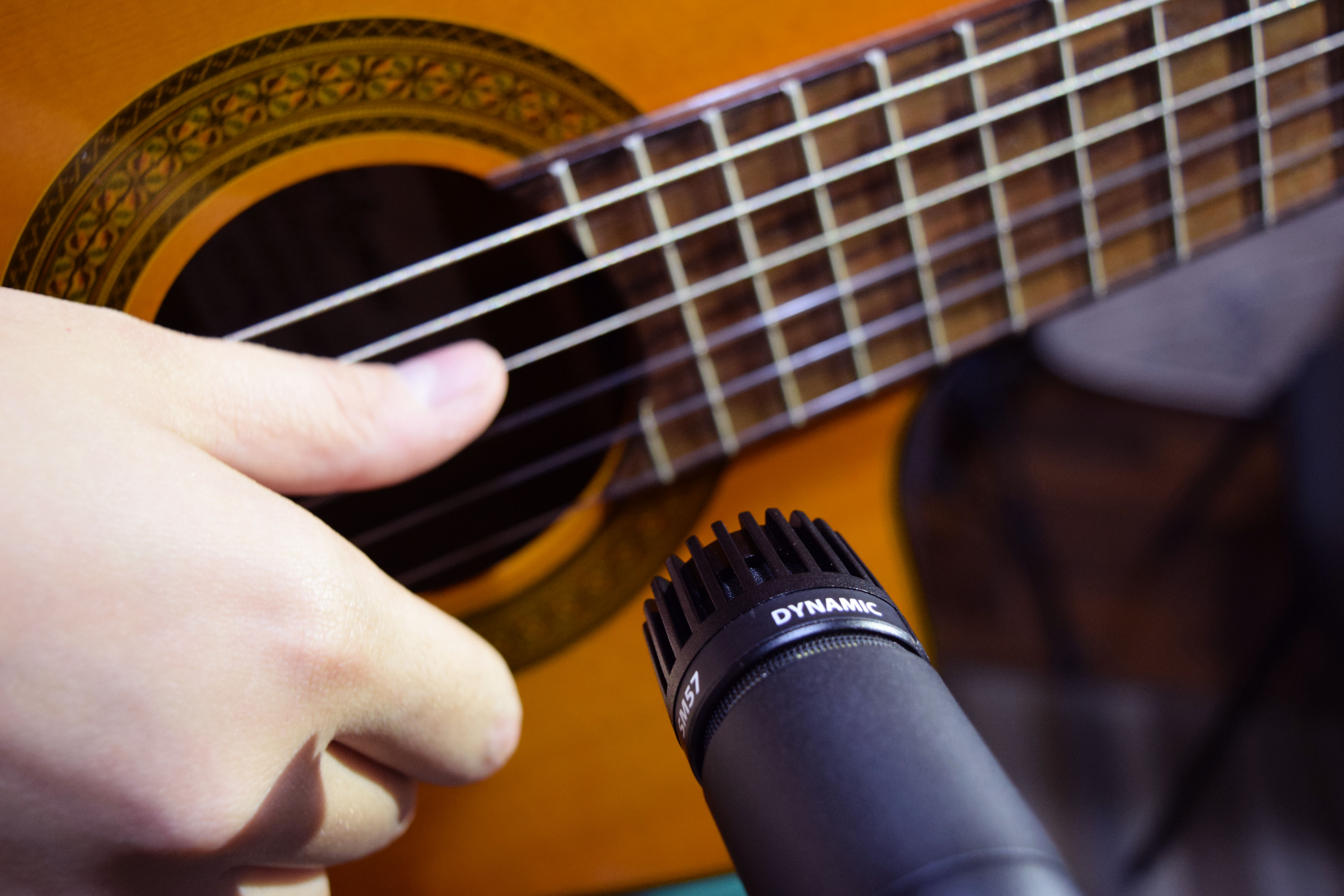 Shure B57 dynamic microphone recording a guitar.